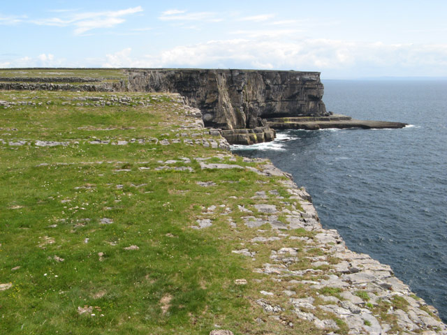 Cliff edge Denudation of the underlying limestone bedrock where it is desiccated by the ever-present wind is about the only sign that the field ends in a serious cliff as one approaches from the north. A wild, romantic place with views of the coast of County Clare in fine weather, as here.